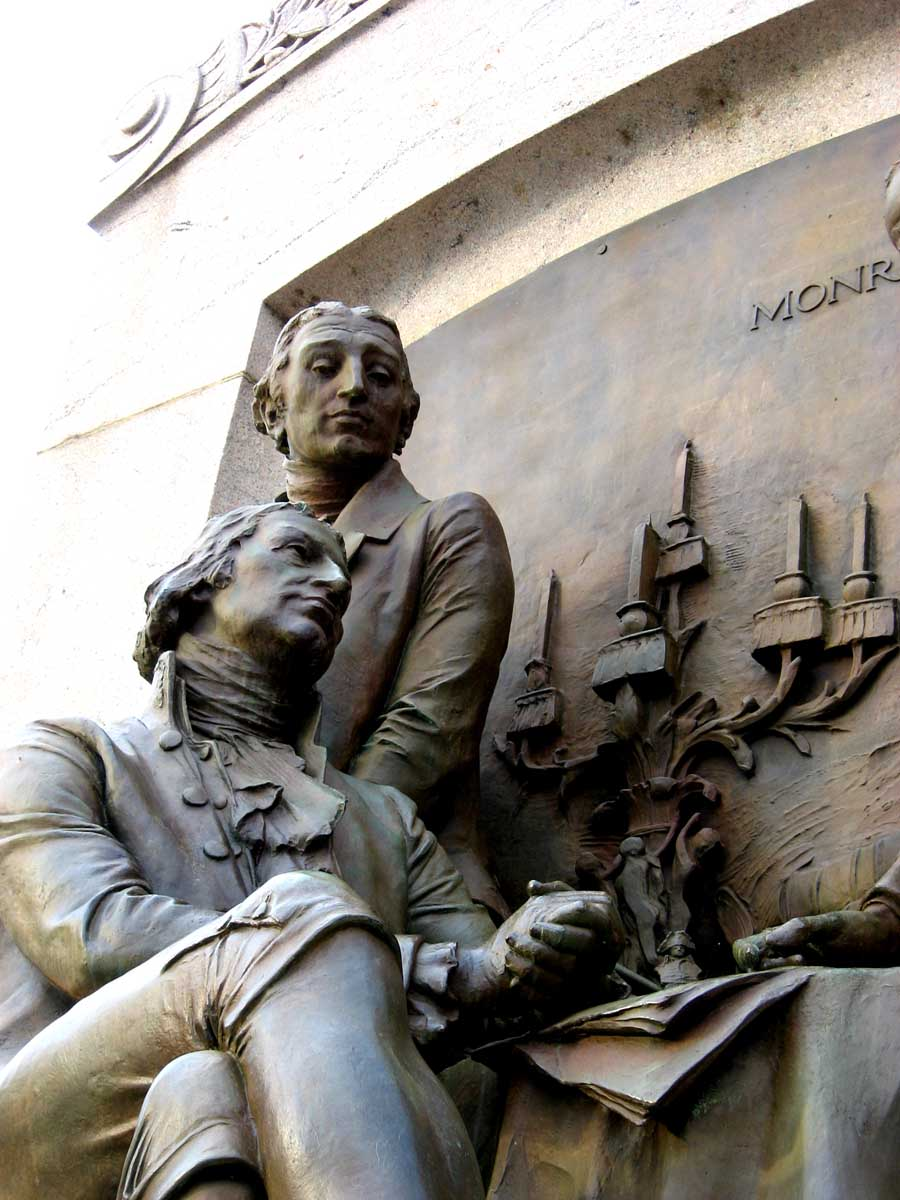 Signing the Treaty from the Fountain of the Centaurs, Karl Bitter, sc.